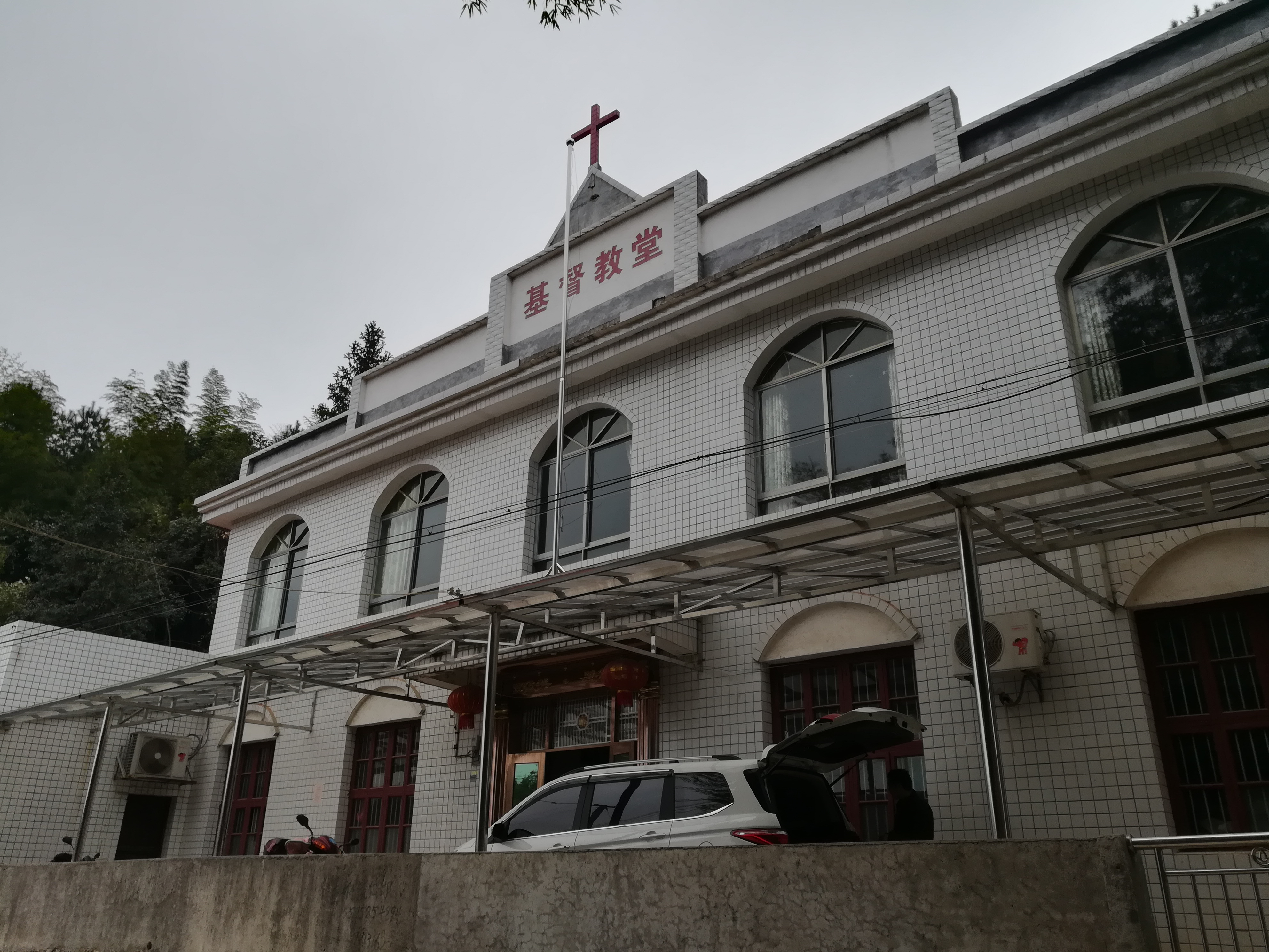 The Huayuan Christian Church in Qingshanqiao Town of Ningxiang, Hunan, China.